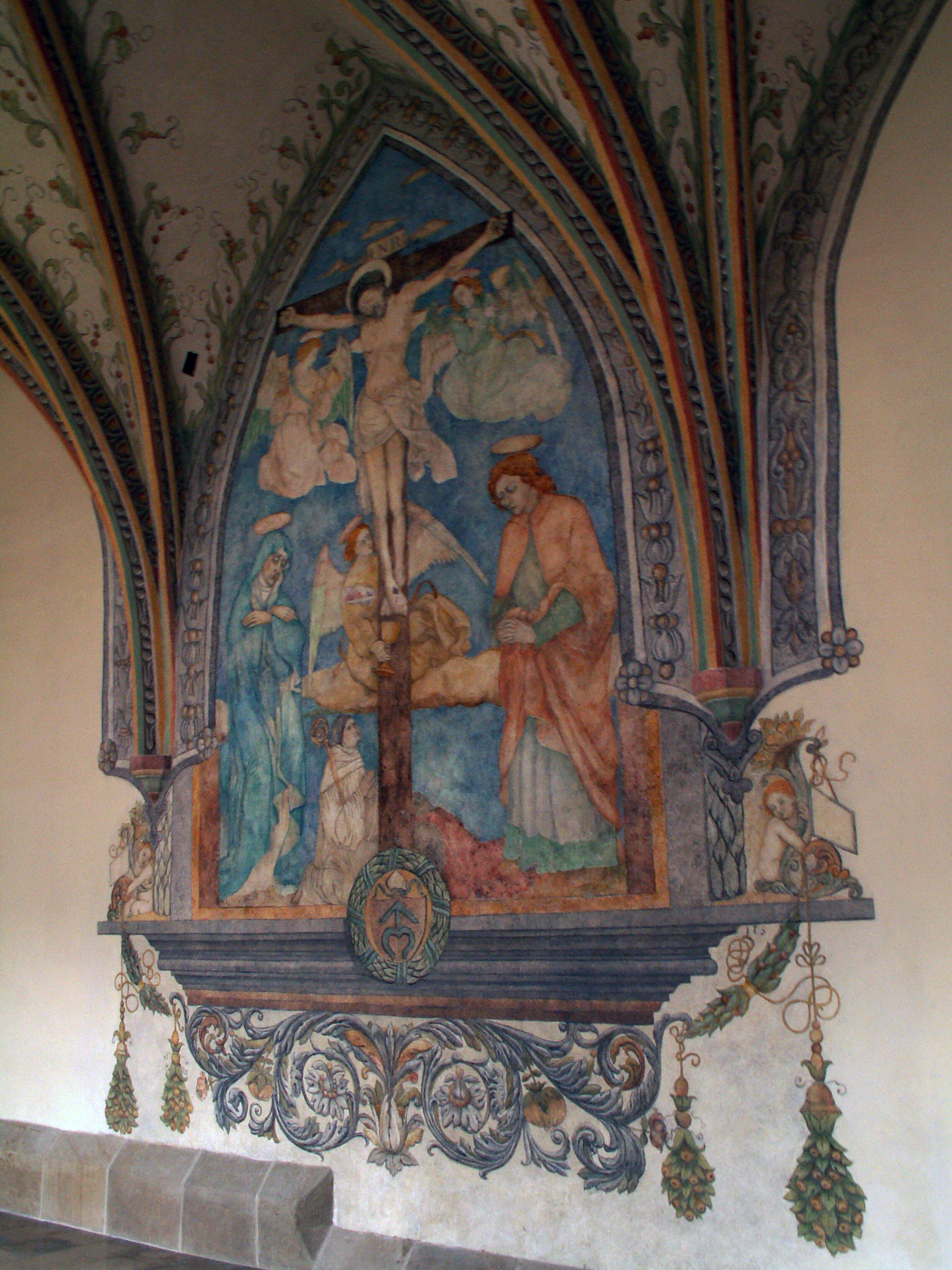 Stanislaw Samostrzelnik "Crucifixion" (polychrome ,1530-1541) Cistercian Abbey of Mogila Nowa Huta